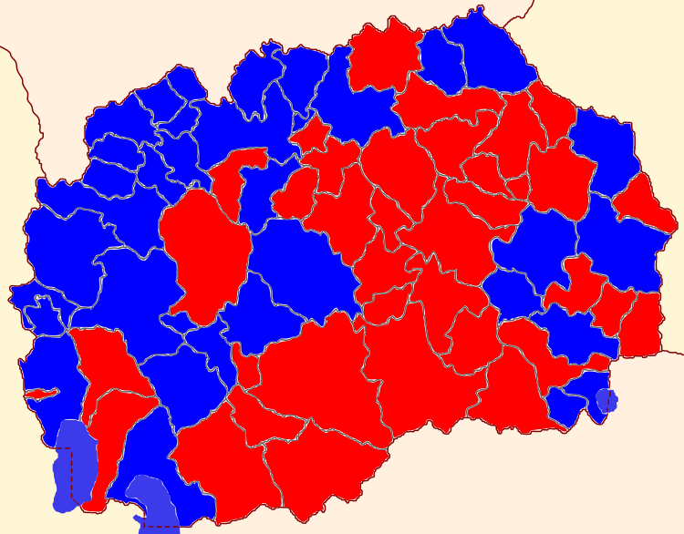 Results by municipality from the Macedonian Presidential Election 2019 (blue = Stevo Pendarovski; red = Gordana Siljanovska)